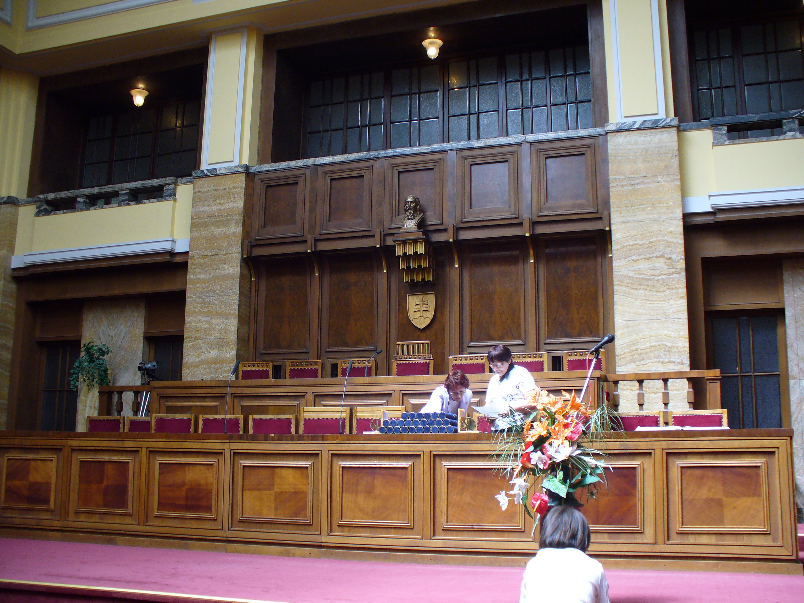 Comenius University.